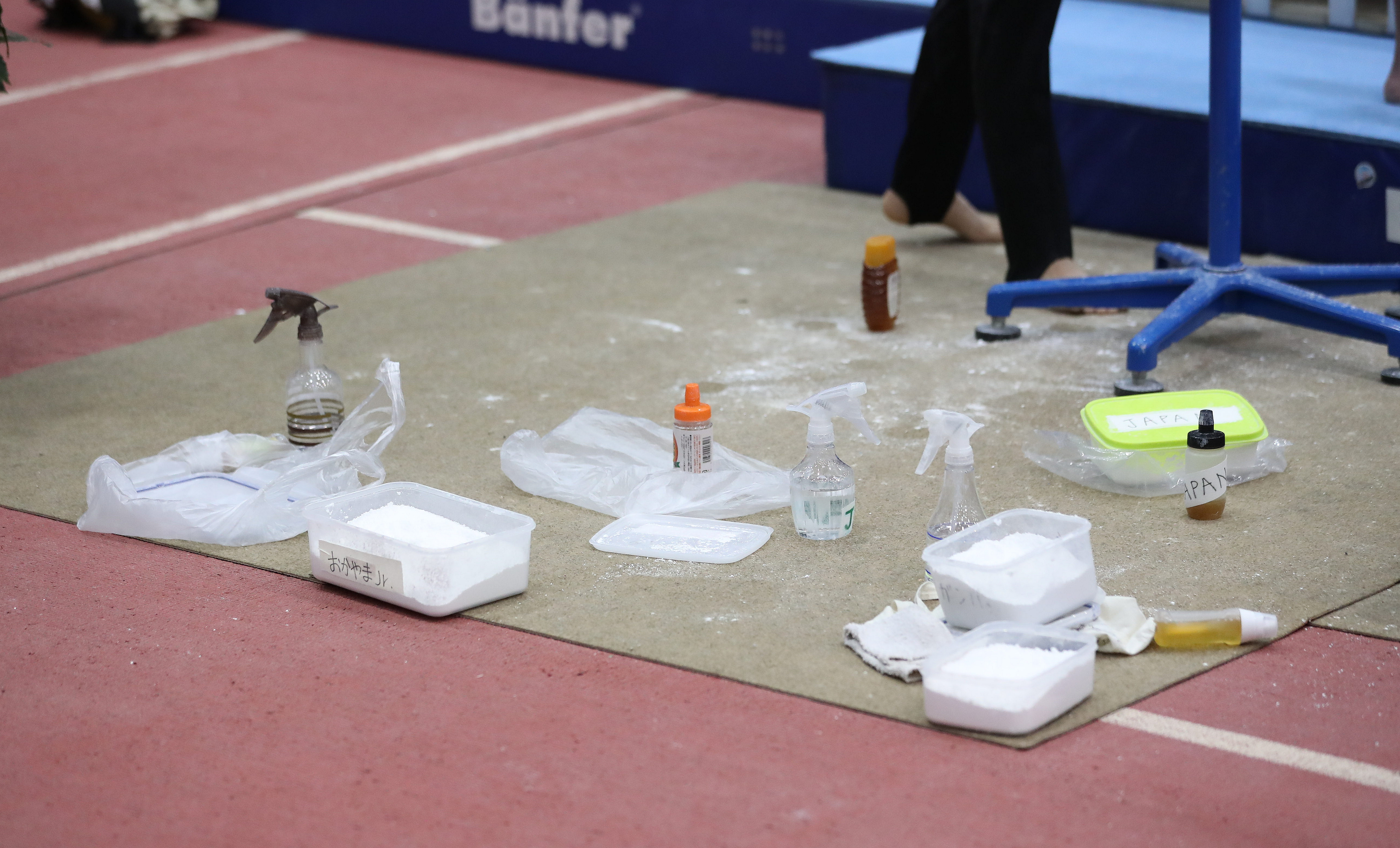 Afternoon training on parallel bars at the 15th Austrian TGW Future Cup Linz 2018.